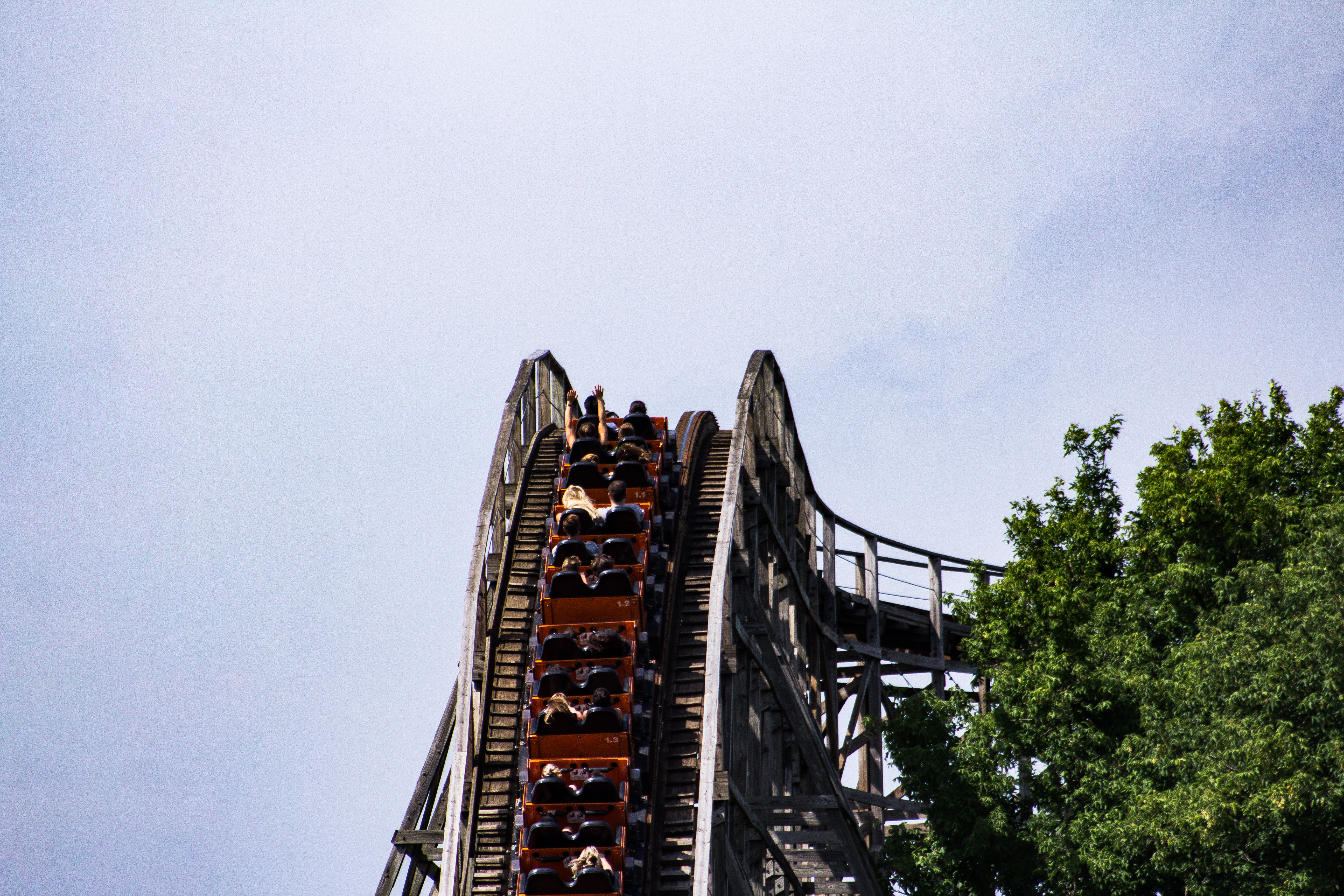 A roller coaster car of the Mighty Canadian Minebuster ascending up the track.